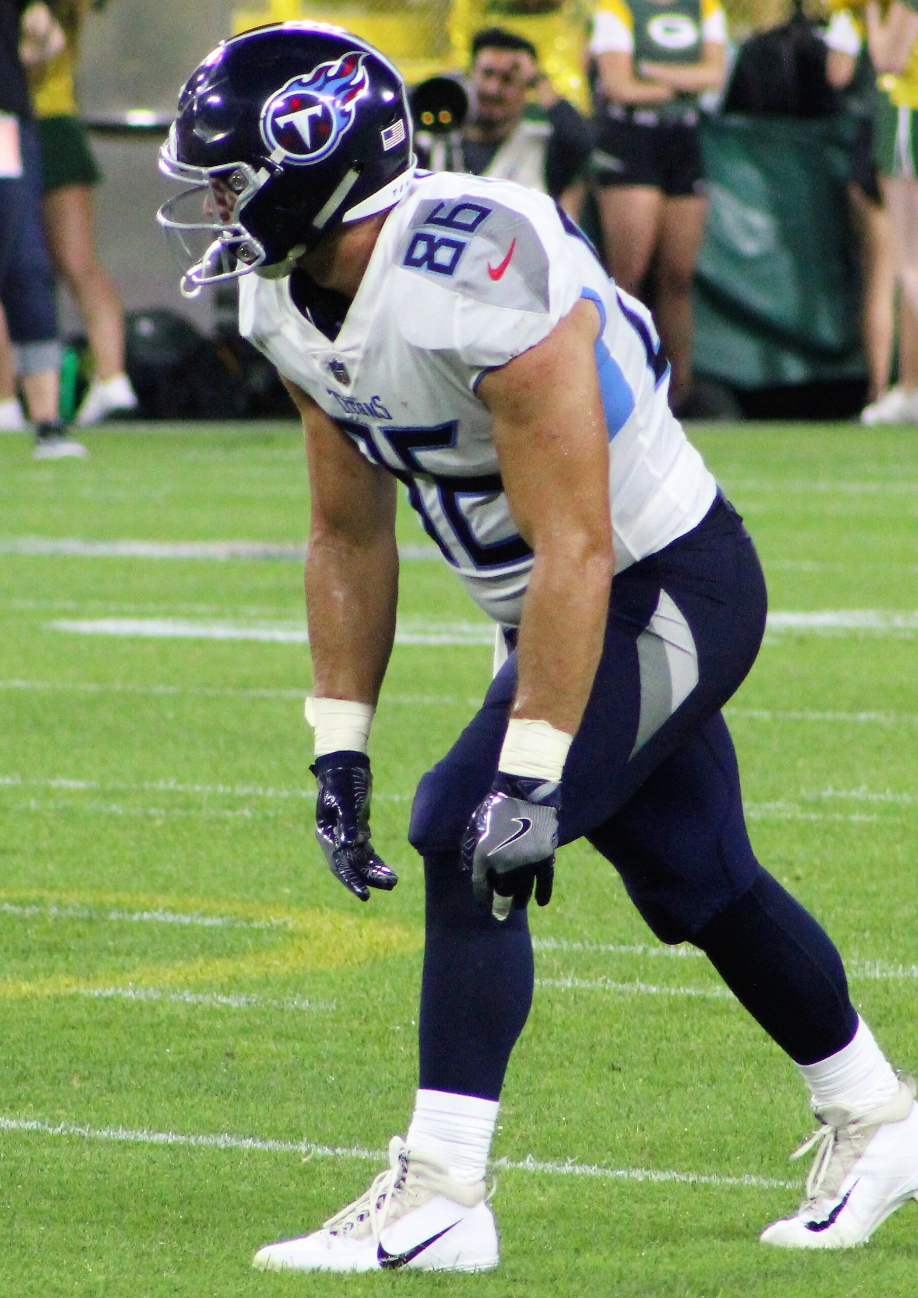 Anthony Firkser, Tennessee Titans at Green Bay Packers (Preseason), August 9, 2018